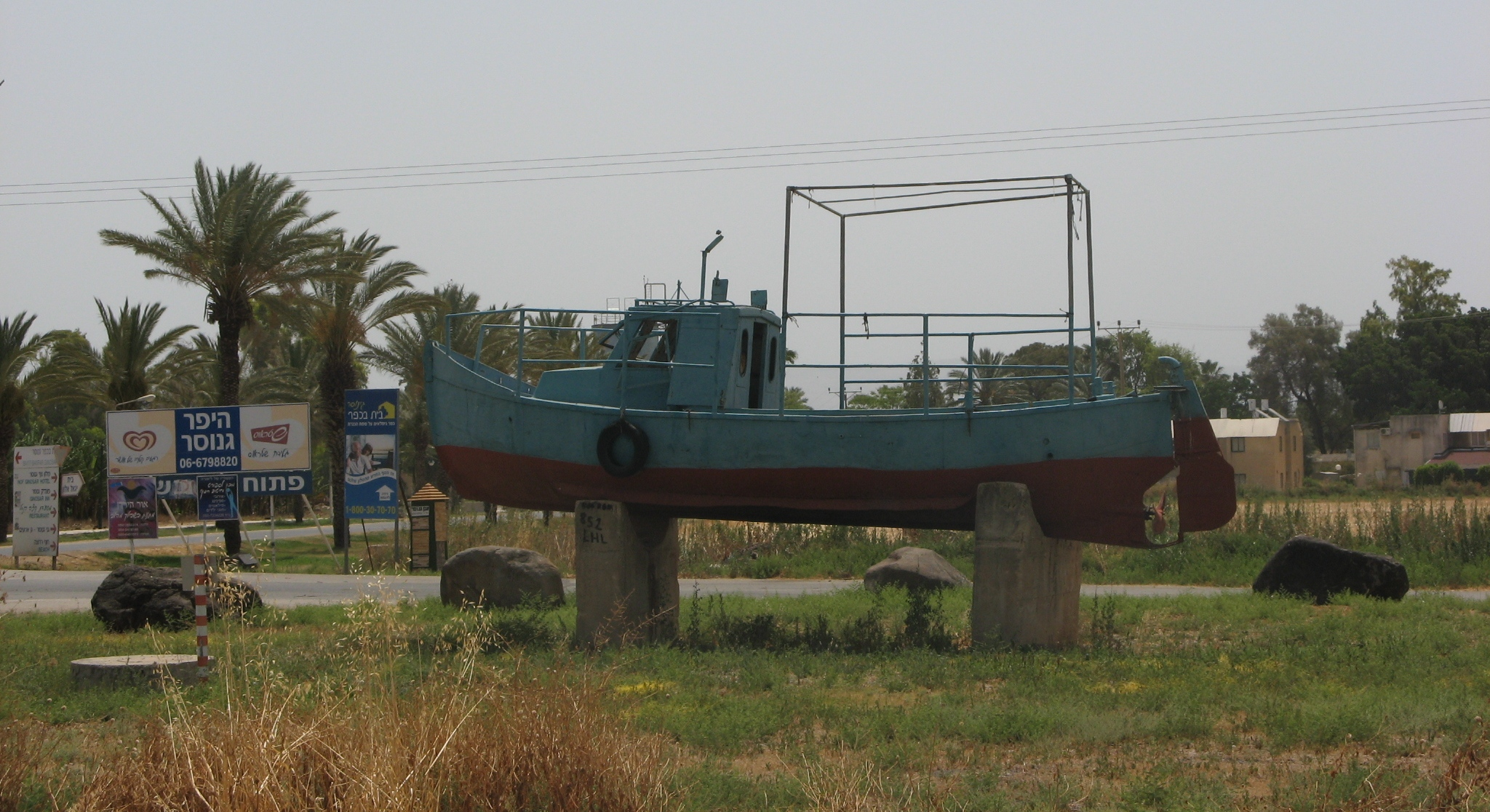 Entrance to Ginosar